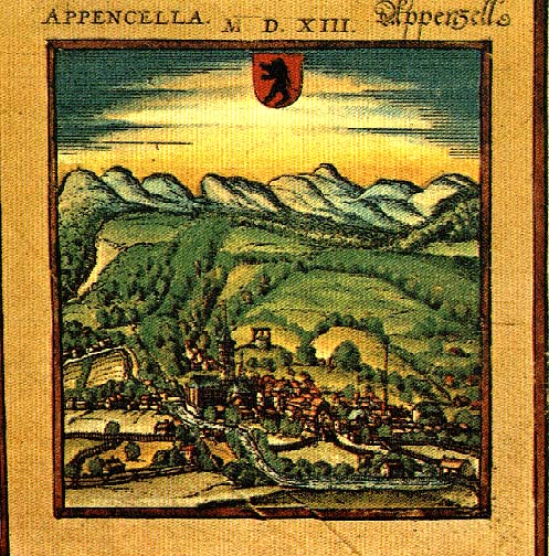 Painting of the city of Appenzell, capital of the Canton of Appenzell Innerrhoden (Switzerland)